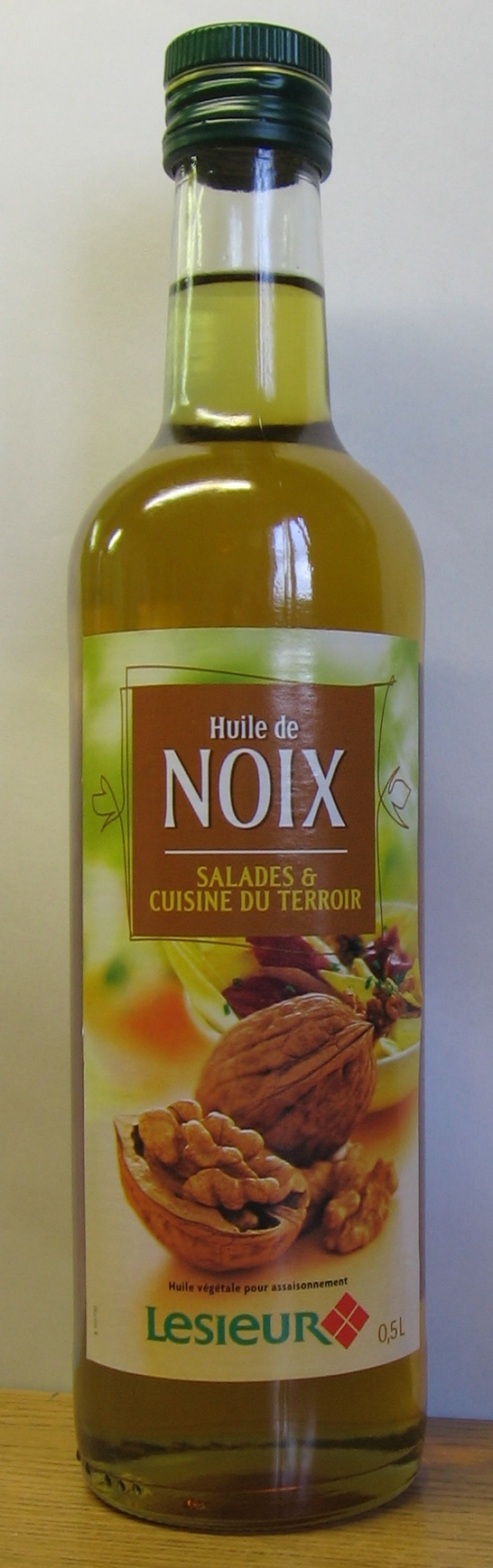 Oil from walnuts ("Persian nuts", Juglans regia)